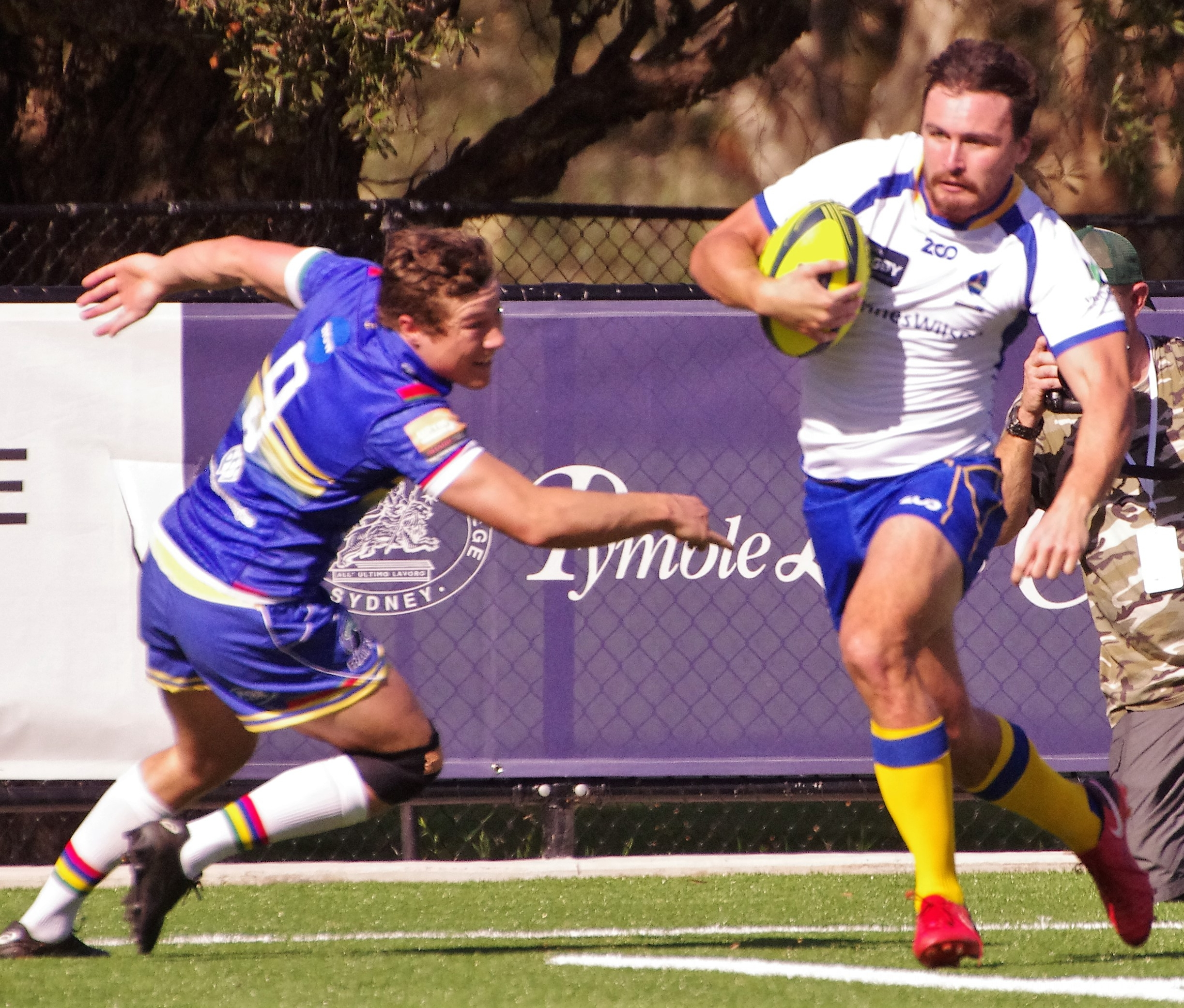 Rugby player Lachlan Maranta for Brisbane City gets past Nick Duffy of the Sydney Rays in the 2018 National Rugby Championship at Woollahra Oval in Sydney, Australia.